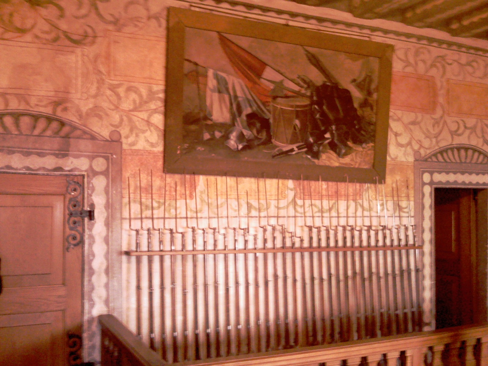 Armoury of Castel Uster